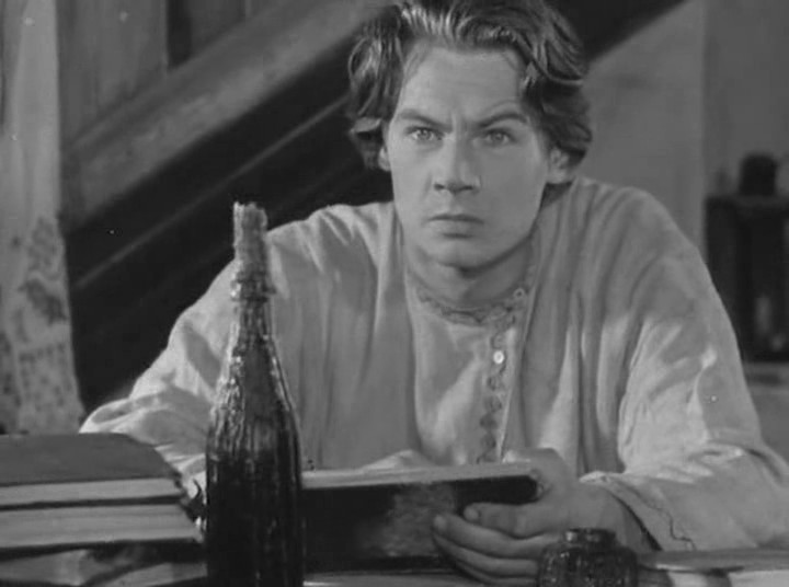 Screenshot from 1940 Soviet movie My Universities (Мои университеты) based on Maxim Gorky's autobiography